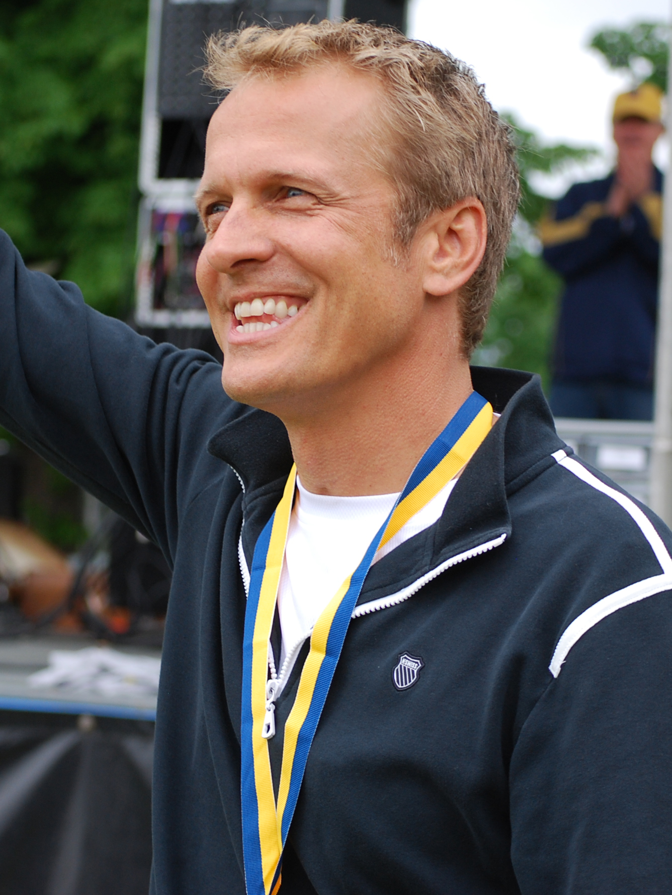 Actor and Bellin spokesperson Patrick Fabian on the Bellin Run 2011